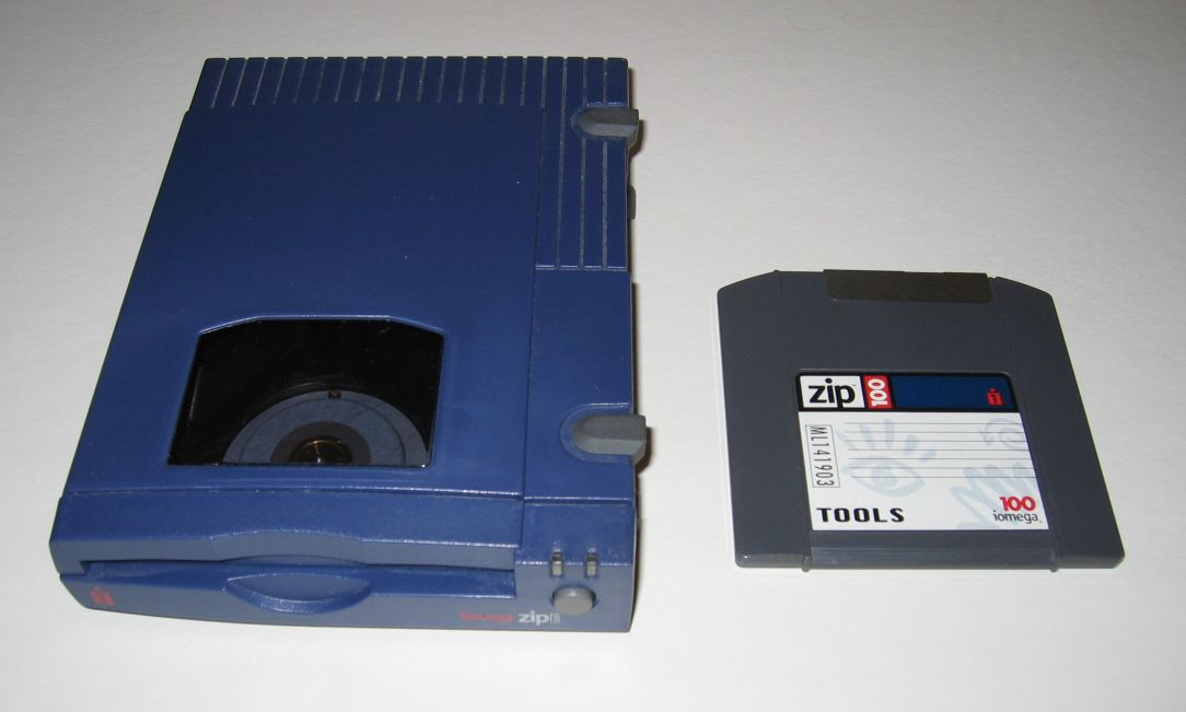 Zip100 drive with Zip100 disk